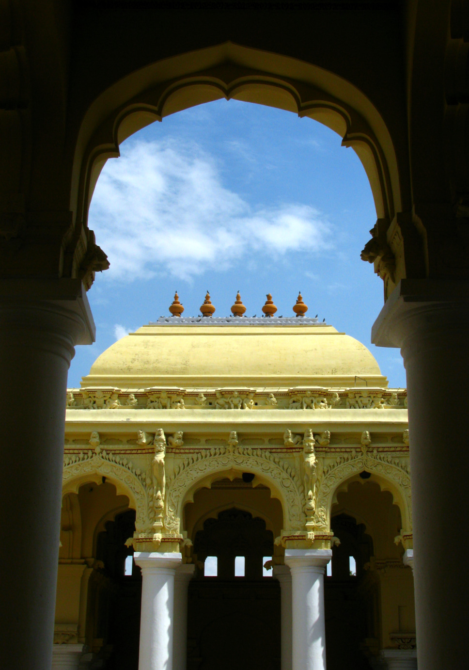 This palace, built by Thirumalai Nayak in 1636 AD is a splendid example of Indo-Saracenic architecture. This is a view from the large courtyard which is surrounded by massive circular pillars. The Sad Story Most of this palace building was demolished by the builder's grandson, Chockanatha Nayak, who ruled Madurai from 1662-82 and the valuables like jewels, woodcarvings etc were shifted in order to build his own palace at Trichy. It was a common practice to destroy palaces and build new one when a new ruler arrives. However, they spared temples and other places of worship. It is said that only one tenth of the actual palace exists today of which only one fourth of it is allowed for visitors. Ruins of the palace's pillars can be seen as far as a kilometre from here. For a period this courtyard was used as a cattle shed before it was discovered and partially restored little by Madras Governor Lord Napier in 1866 -72.